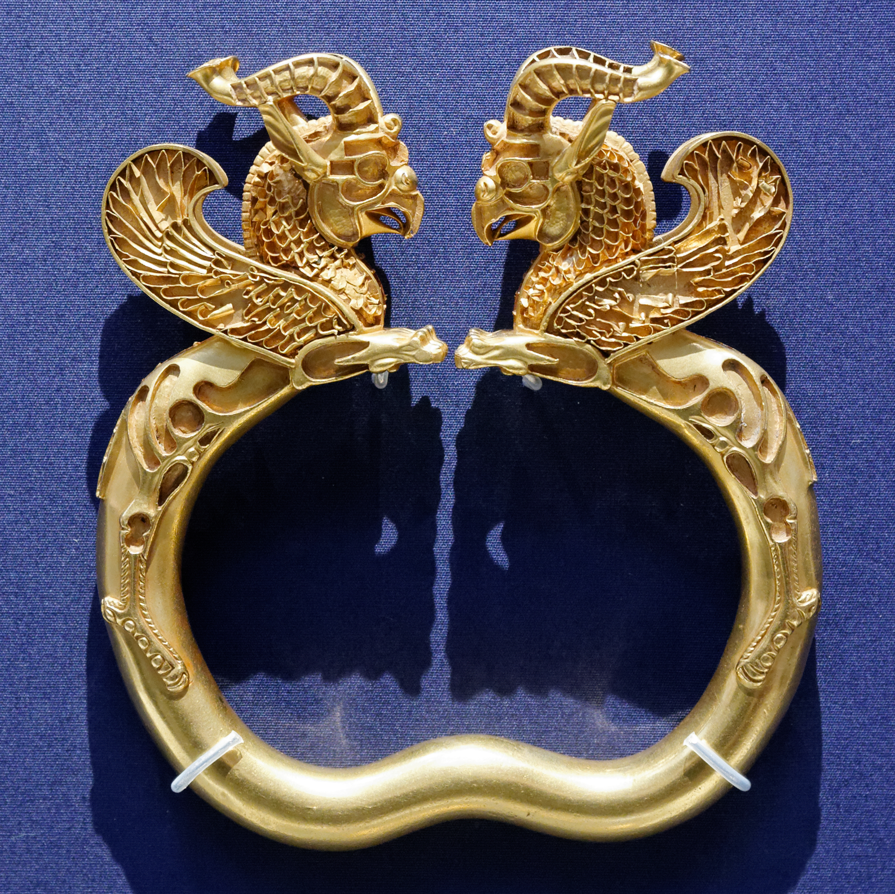 Gold armlet with griffin heads, from the Oxus Treasure.